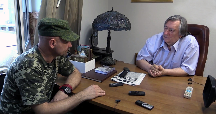 Aleksey Mozgovoy, a Lugansk people's militia leader, discusses matters with Alexander Prohanov, August 7, 2014.